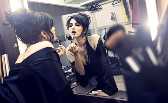 Sunny Leone on the sets of Jism 2.